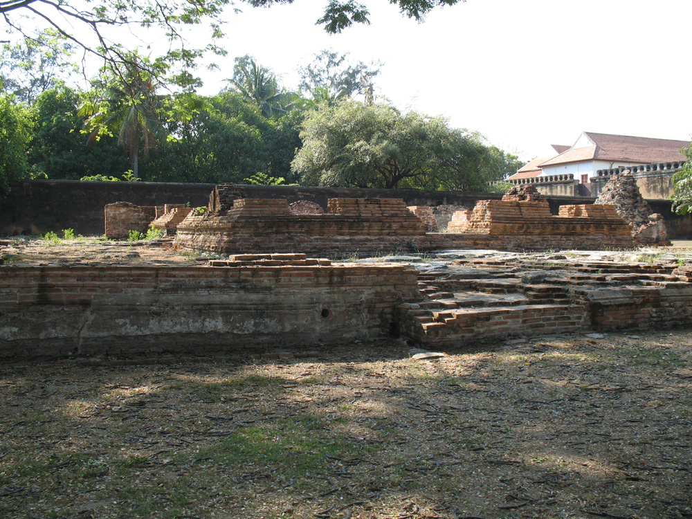 Suthasawan Hall, King Narai's Palace, Lopburi Province.